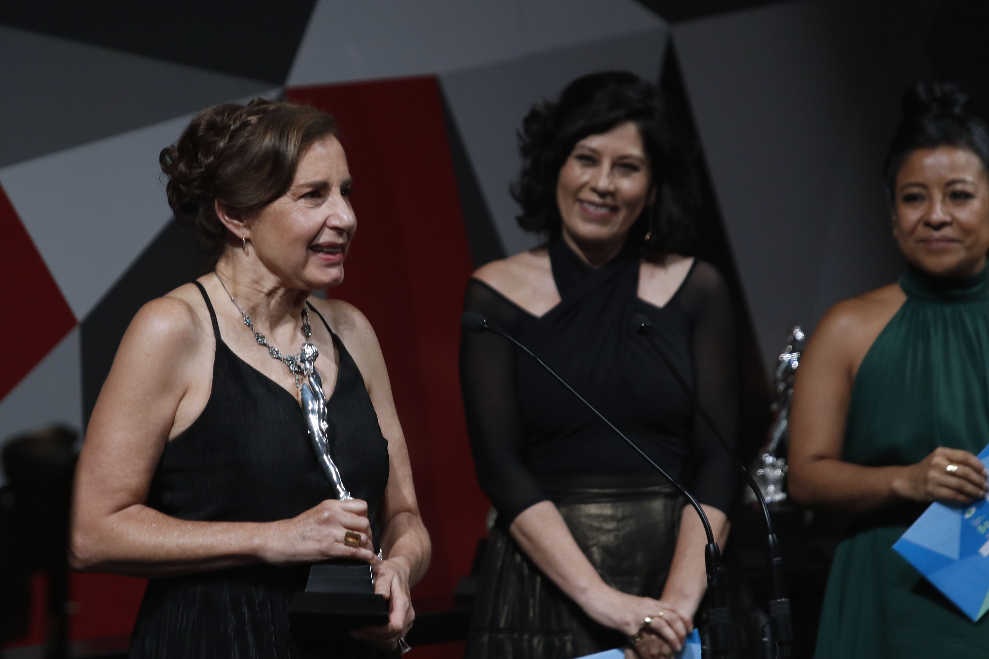 BEST ACTRESS, Verónica Langer, for La caridad. Photography: Milton Martínez / Secretary of Culture CDMX.